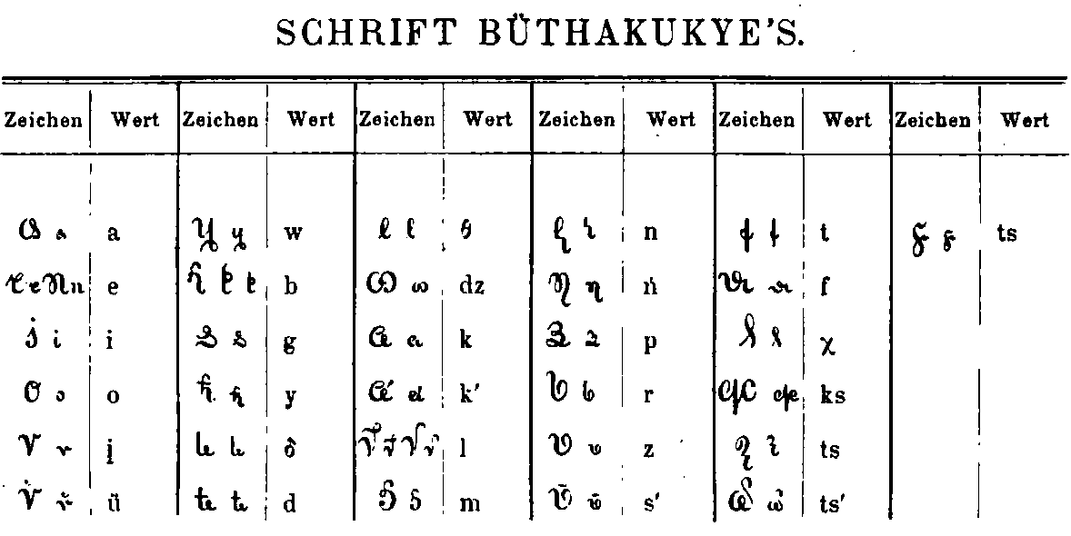 Alphabet used during the XIX century in Albania. Probably the one created by Naum Veqilharxhi, cited by Robert Elsie